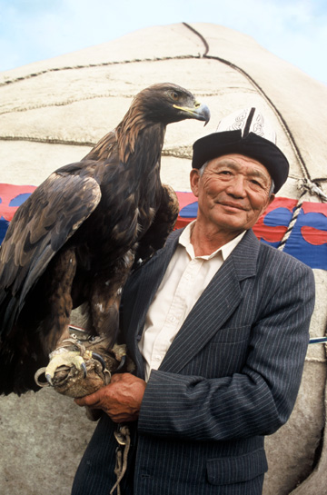 A Kyrgyz hunter (berkutchi) with his golden eagle, in front of a traditional felt (yurt) in Karakol, Kyrgyzstan